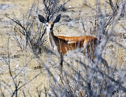 ♂ Raphicerus campestris Thunberg, 1811